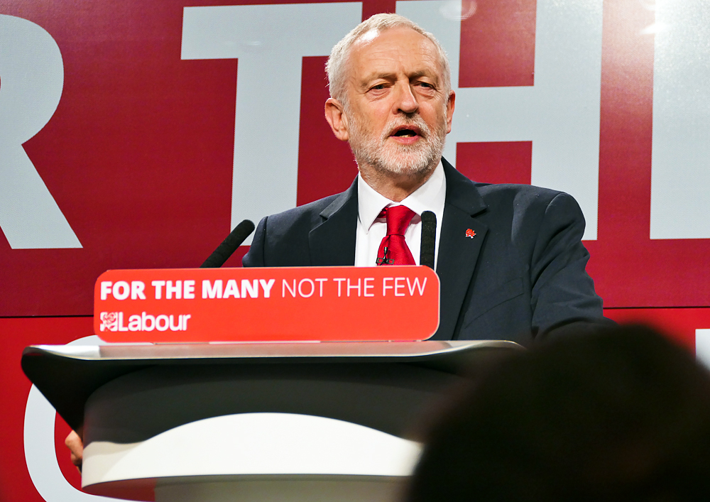 Labour Party General Election Launch, 9th May 2017 at Event City, Trafford, Manchester - "For the Many not the Few"